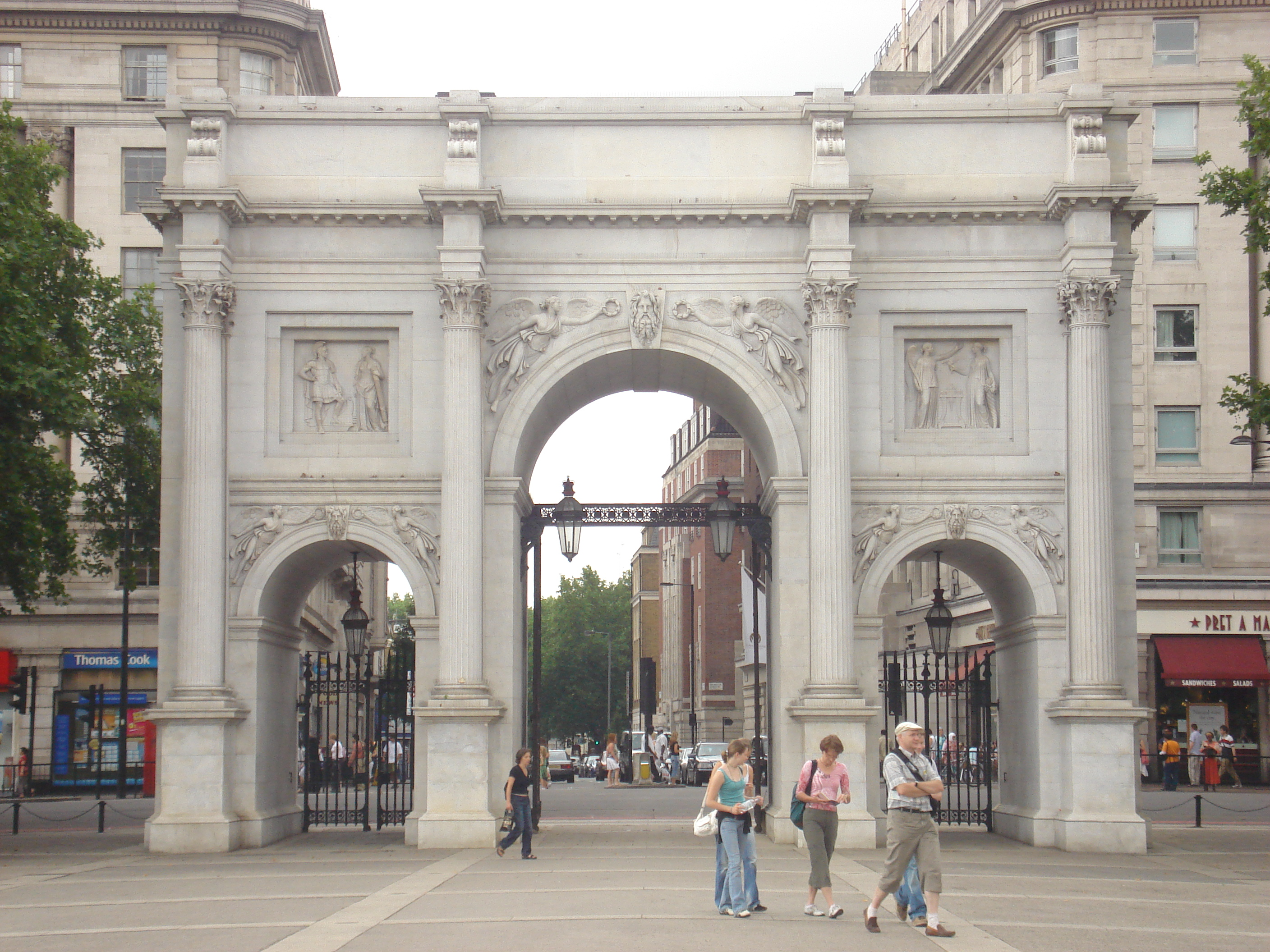 Marble Arch Photo